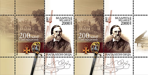 Stamp of Belarus